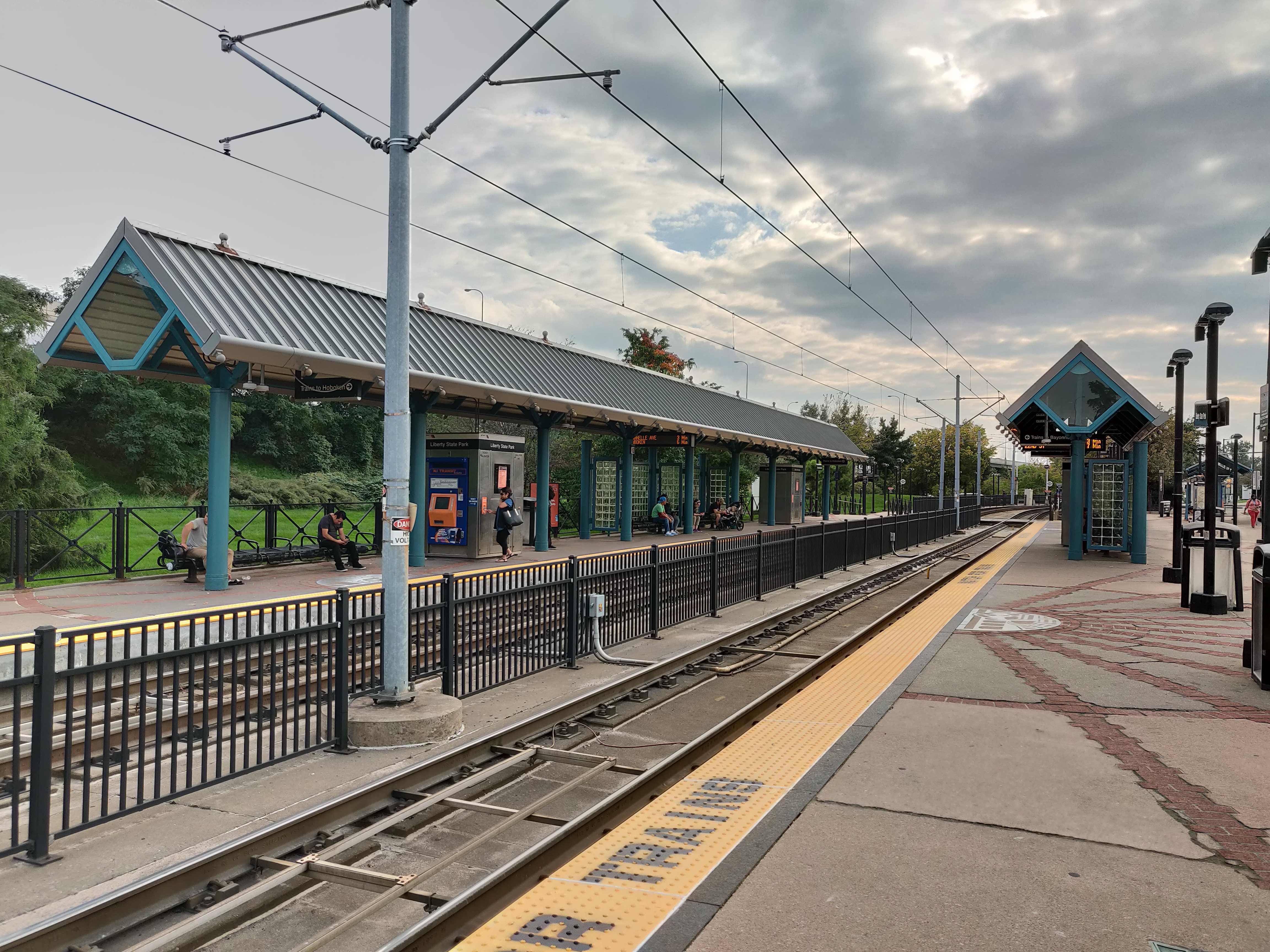 The "Liberty State Park" Hudson-Bergen Light Rail Station in Jersey City, New Jersey, USA. The photographer is facing south on the northern side of the station.